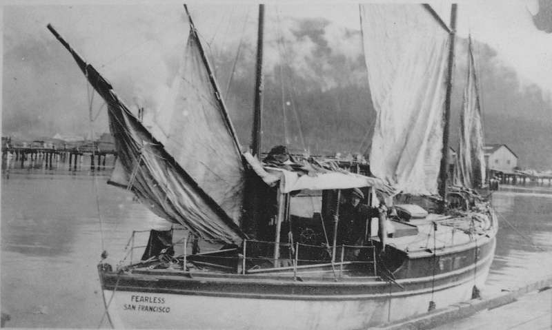 Holding the day's catch aboard Fearless, Juneau